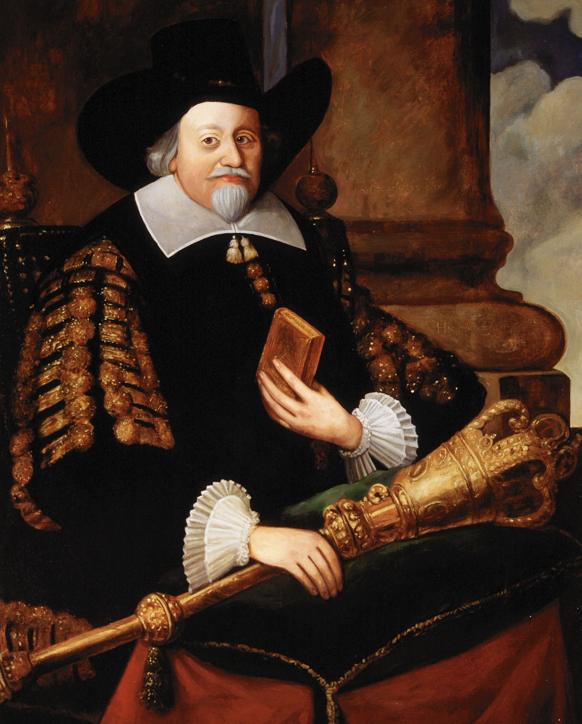 Portrait of Francis Rous (1579-1659)